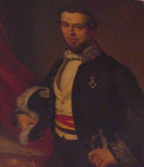 Ferdinand d'Udekem, burgemeester